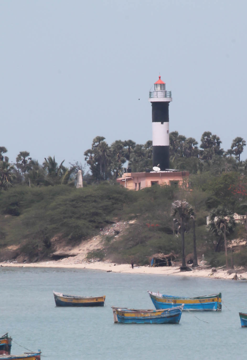 Pamban lighthoue in Rameswaram island. View from the pamban bridge